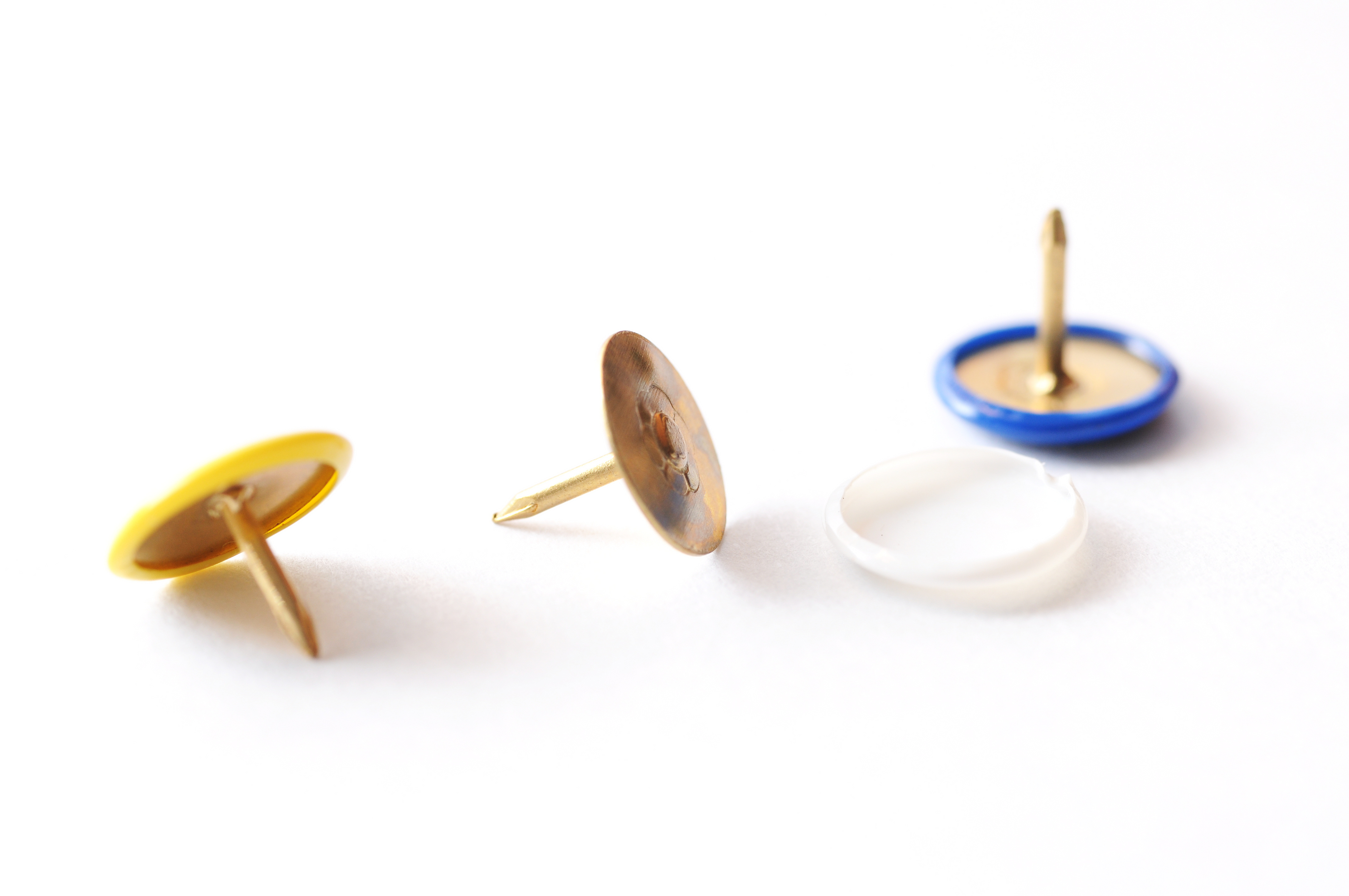 Thumbtacks